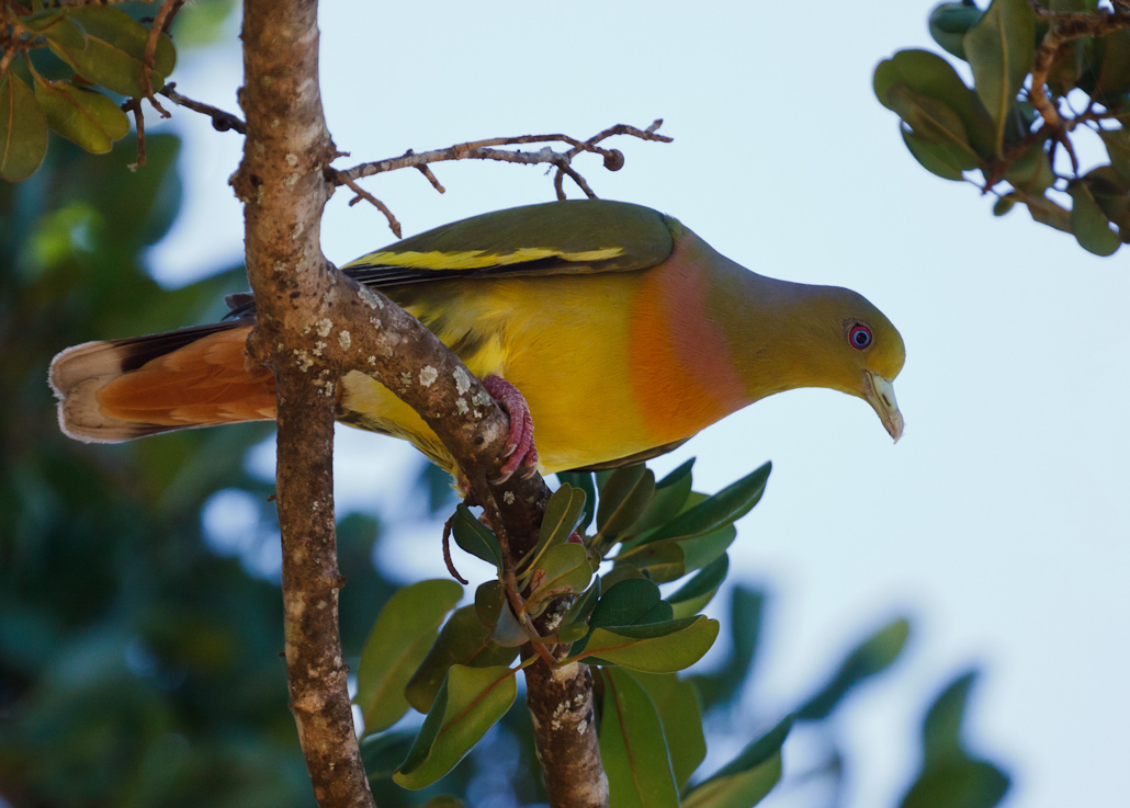 A male Orange-breasted Green pigeon at Yala National Park, Sri Lanka.